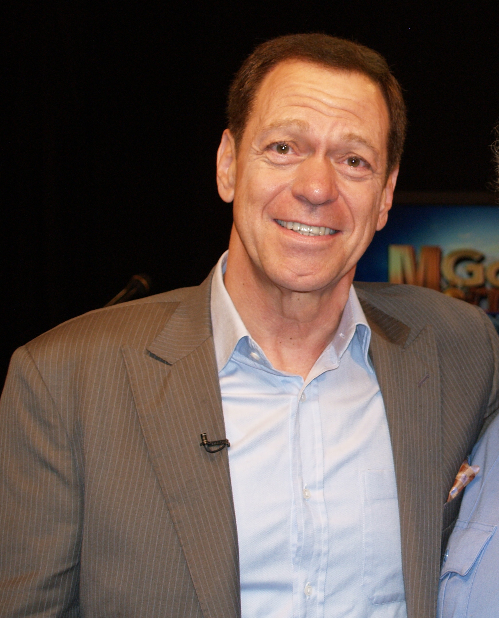 I personally took this photo of comic/singer Joe Piscopo in San Diego while he was visiting at KUSI-TV.